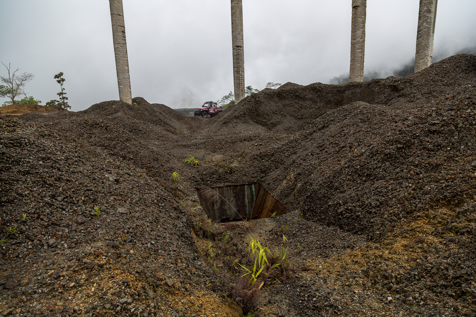 Ranau, Sabah: Mamut Copper Mine. The gravel was eventually pushed to the cone and transported with another conveyor to the milling compound